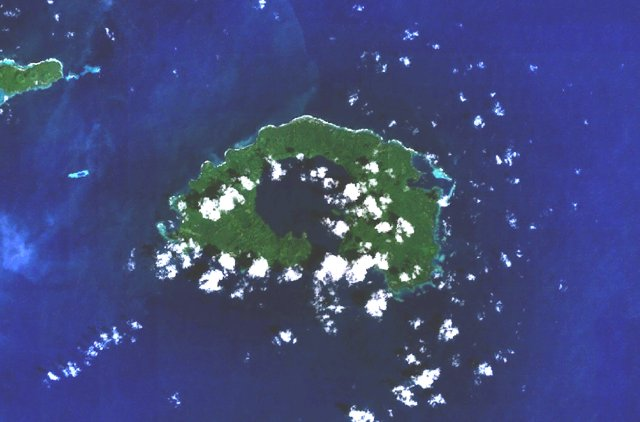 The most prominent feature of Garove Island, located north of New Britain, is a 5-km-wide caldera that is flooded by the sea through a narrow breach on the southern side of the island, forming Johann Albrecht harbor. Satellitic cones were constructed along the NE and SW coasts of the 12-km-wide island. No historical eruptions are known from Garove (also known as Vitu, or Witu), but the preservation of fresh lava flow structures on the NW coast suggests an age as young as a few hundred years. The eastern tip of Mundua Island is visible at the upper left.